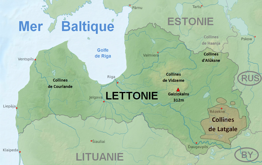 Location map in French of the Latgale Upland in Latvia based on relief-location maps by users: Karlis, NNW, Виктор В, Alexrk2, Chumwa. Equirectangular projection, N/S stretching 170 %. Geographic limits of the map: N: 58.5° N S: 55.5° N W: 20.5° E E: 28.6° E